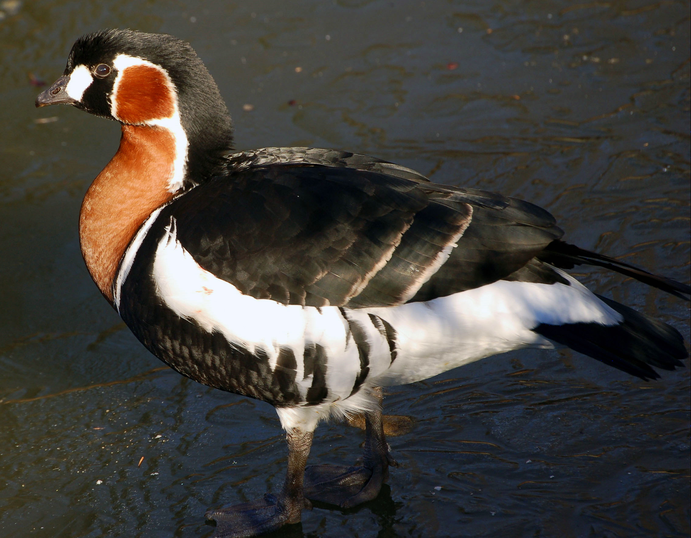 Red-breasted Goose (Branta ruficollis) at Philadelphia Zoo.